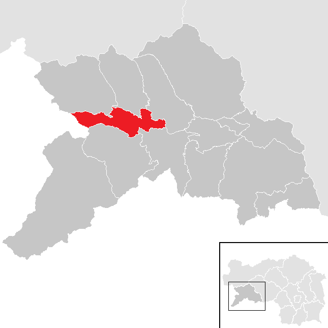 district Murau